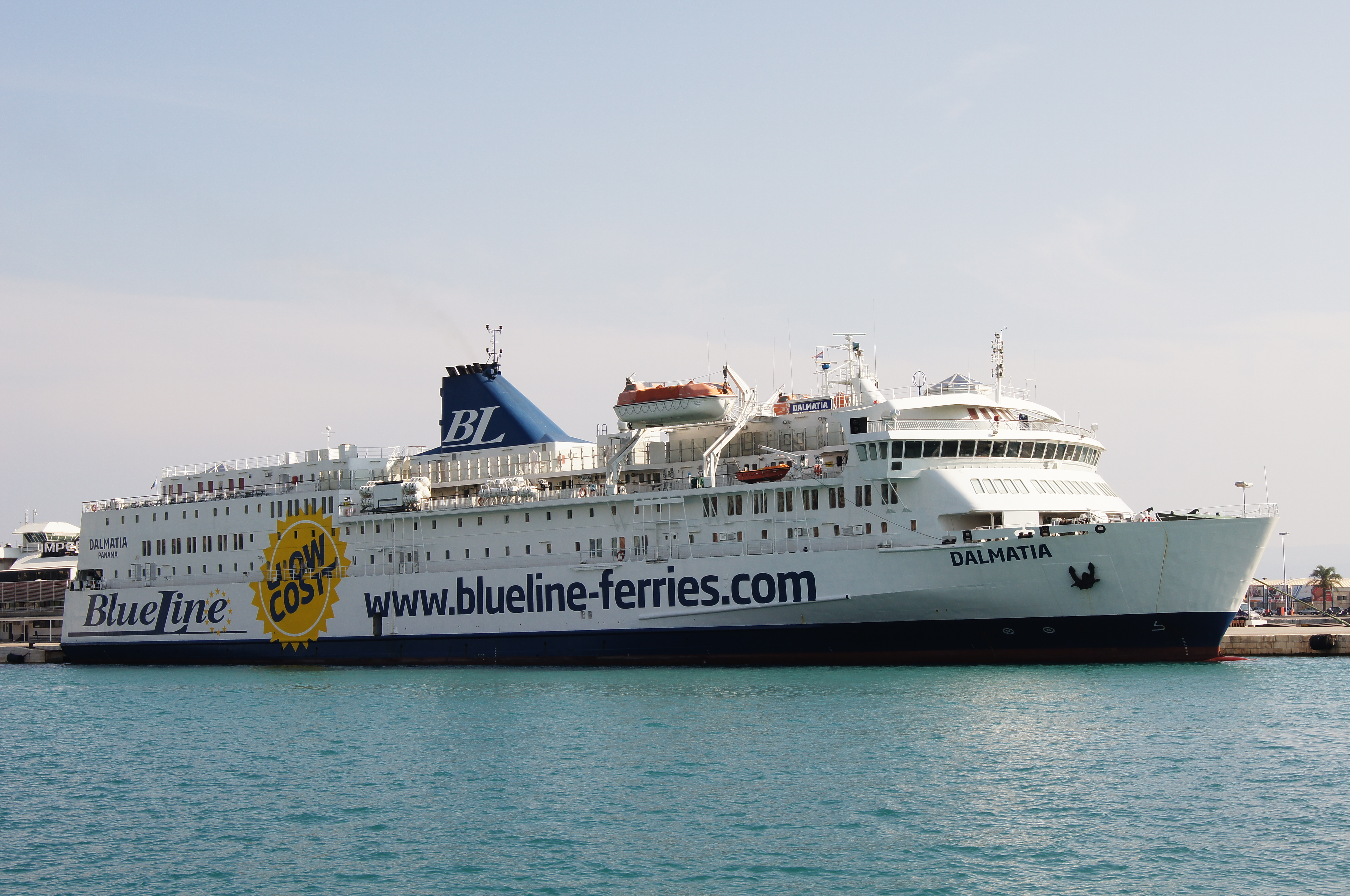 Dalmatia (ship, 1977) IMO 7516761; At the port of Split, 2011-09-23